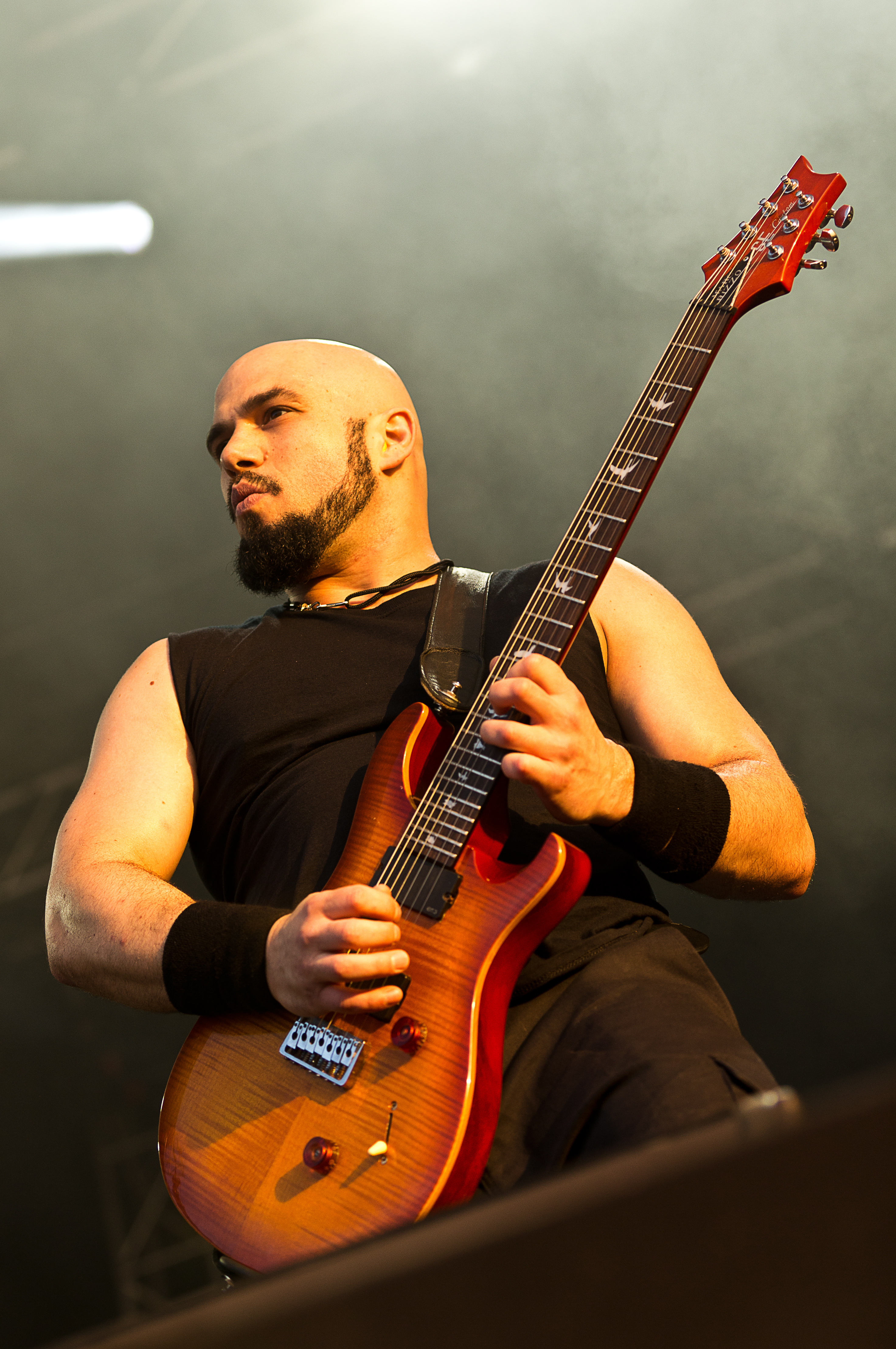 The American heavy metal band Soulfly at the Rockharz Open Air 2015 in Ballenstedt/Germany.